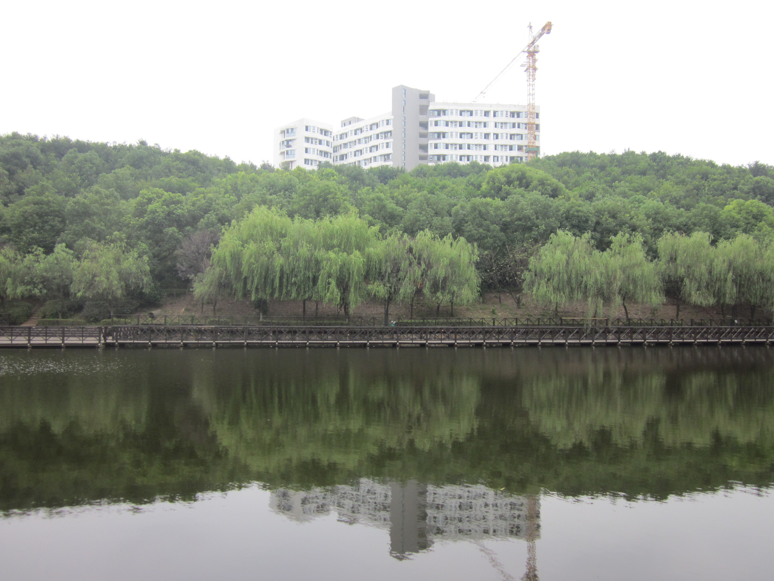 Hunan International Economics University (simplified